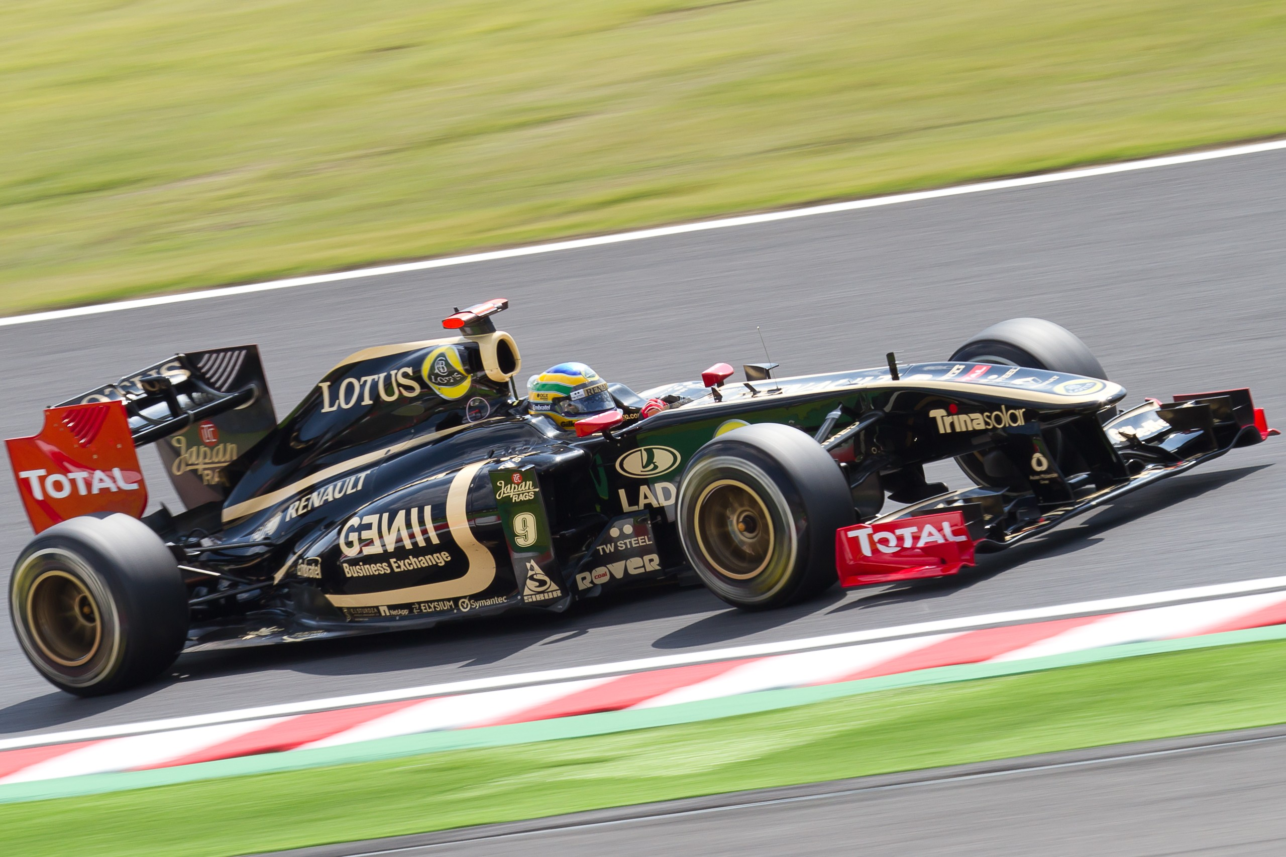 Formula One 2011 Rd.15 Japanese GP: Bruno Senna (Renault) during the first practice session on Friday.